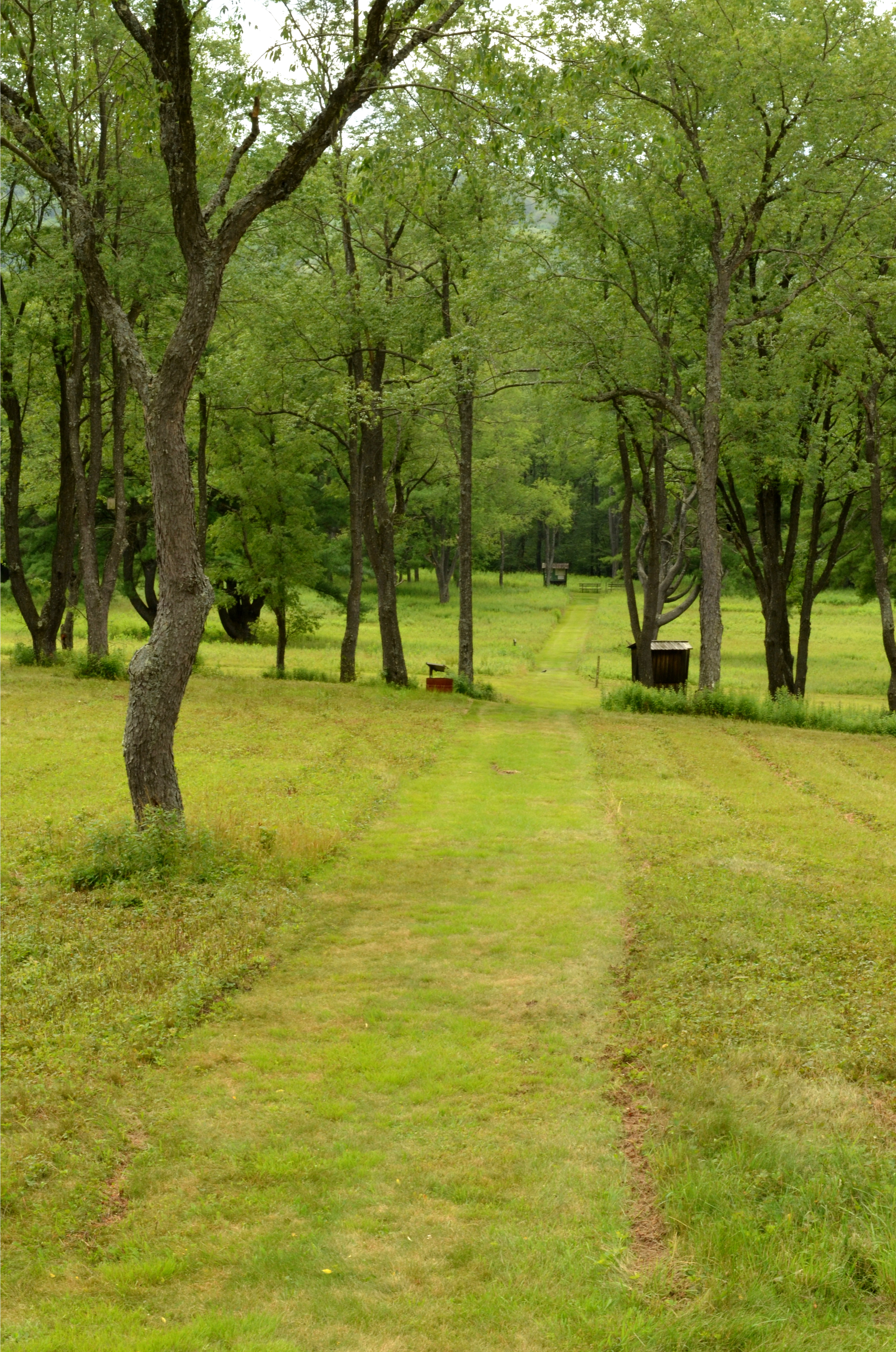 Mason Street from the Visitors Center in Pithole, Pennsylvania.